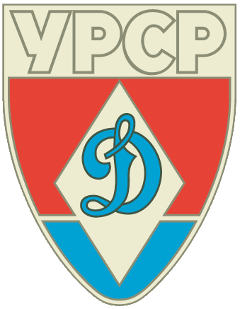 FC Dynamo Kyiv logo